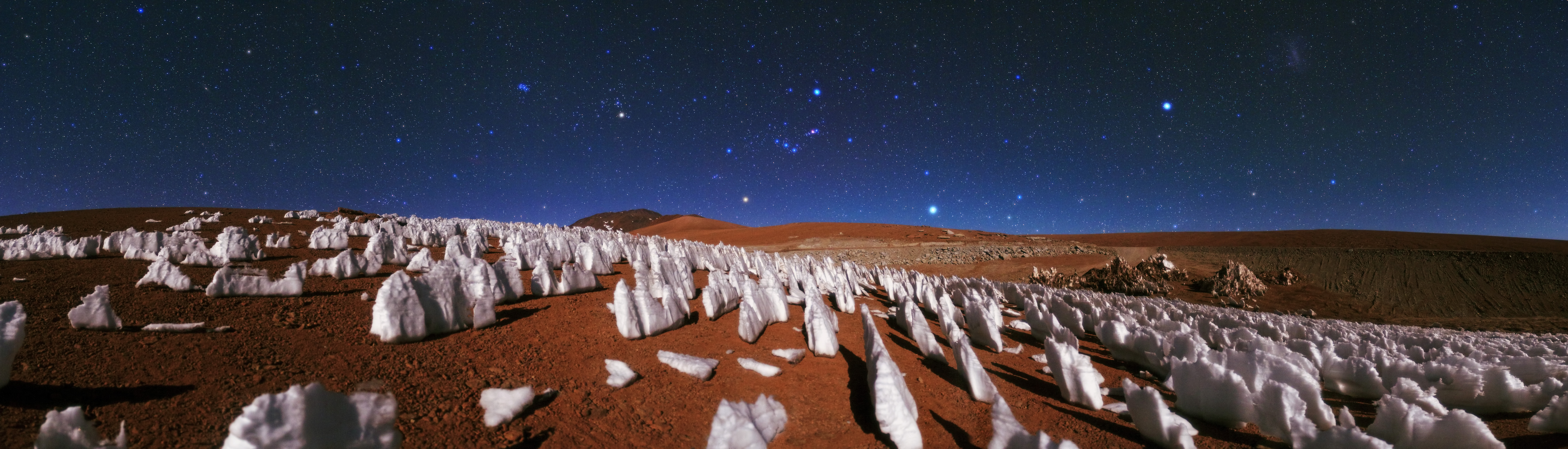 The brilliant starry sky, the red sand and the ice structures piercing the foreground of this image combine to give the impression of a desert far from the reach of human footprints. A landscape that could easily be mistaken for the polar regions of our distant neighbour Mars. The jagged tooth-like formations are not on the Red Planet however, but on the sloping hills of the Atacama Desert. The formations are called penitentes — structures made of snow and ice that form mostly at high altitudes. The low pressure, moisture and temperature at these altitudes help to create this interesting and rare behaviour in the freezing of ice. The strange structures also have a tendency to orient themselves towards the Sun, which is why they are all perfectly aligned like a carefully tended garden of ice. As if this beautiful quirk of nature wasn’t enough, above the structures lies an even more magnificent sight. The large blue star just above the hill is Sirius — the brightest star in the sky. Following the horizon to the left from Sirius, the ancient red supergiant Betelgeuse can be seen, located in the constellation of Orion. The second brightest object after Sirius is Canopus and it is seen here as a brilliant blue point at the right hand side of the frame.This strange and alien-looking image was taken by ESO Photo Ambassador Babak A. Tafreshi. Links Babak’s image archive at ESO Babak’s homepage TWAN Gallery Babak’s Facebook Page